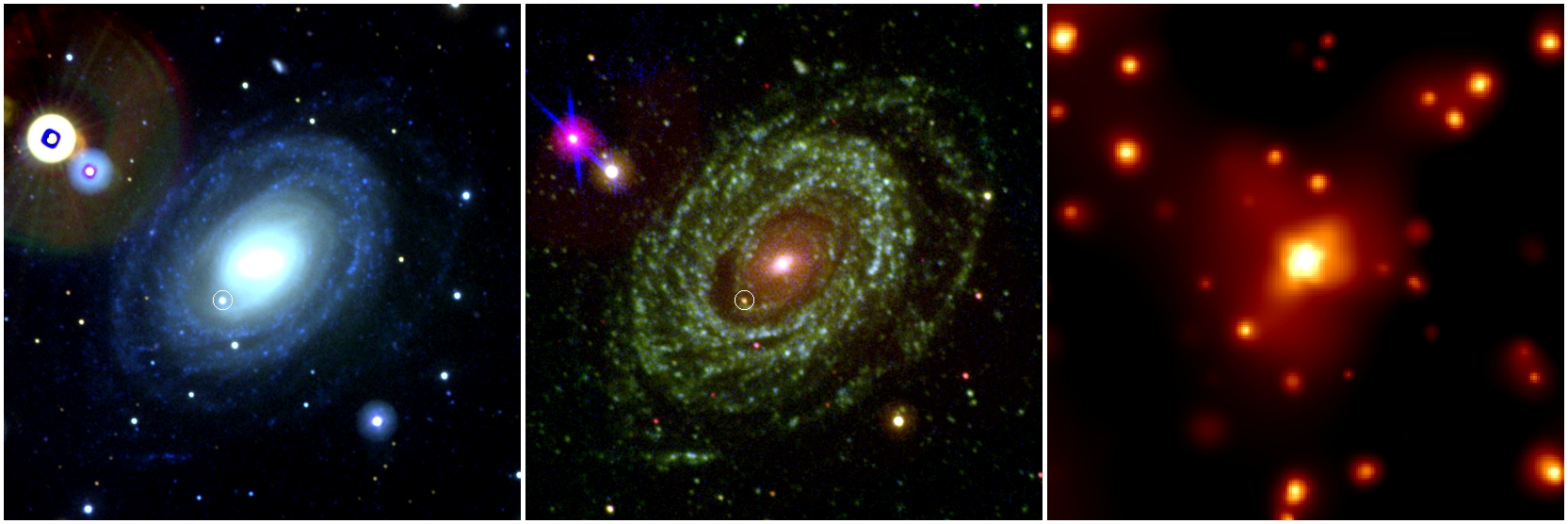 Supernova 2005ke, which was detected in 2005, is a Type Ia supernova, an important "standard candle" explosion used by astronomers to measure distances in the universe. Shown here is the explosion in optical, ultraviolet and X-ray wavelengths. This is the first X-ray image of a Type Ia, and it has provided observational evidence that Type Ia are the explosion of a white dwarf orbiting a red giant star.